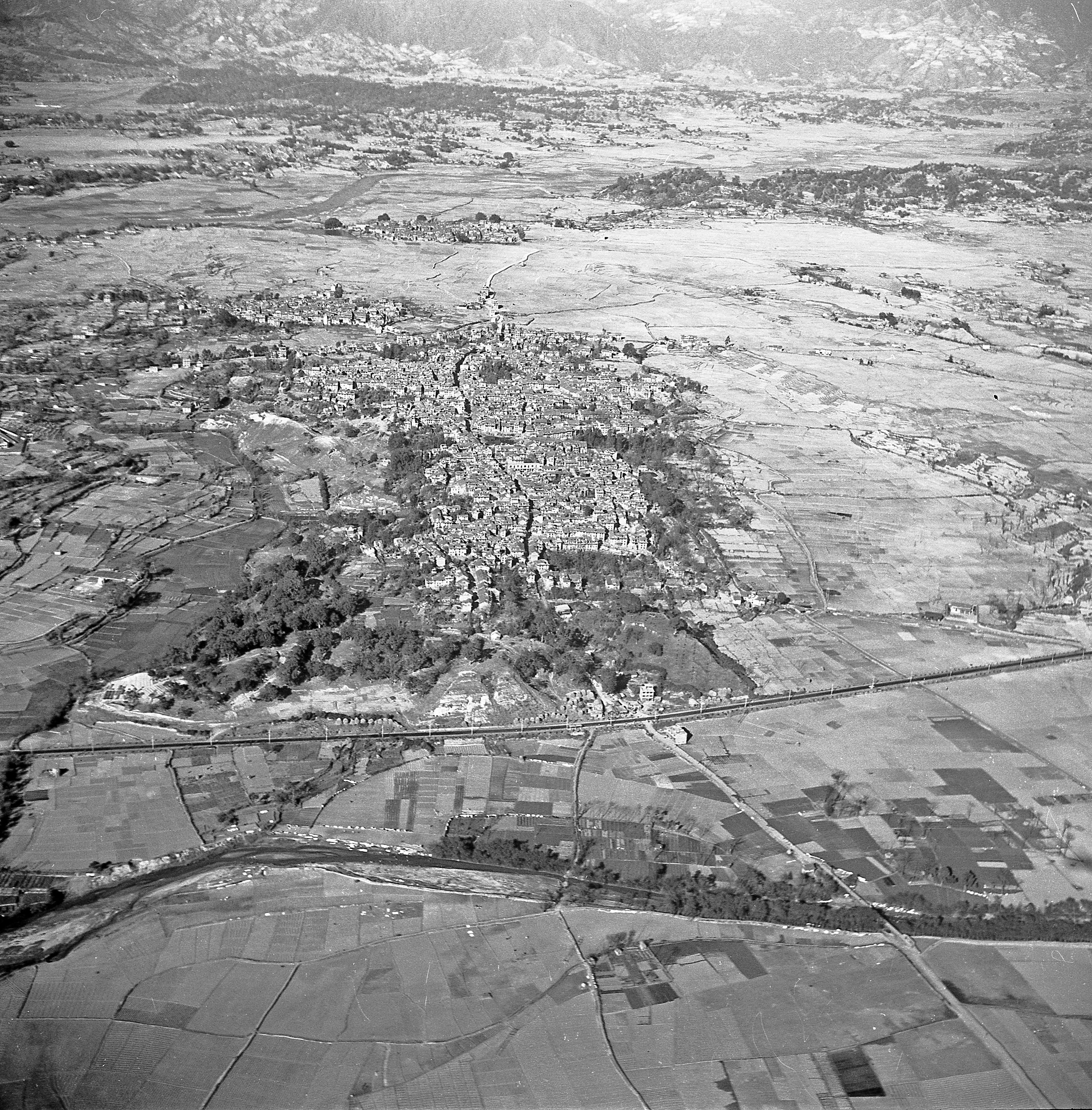 Madhyapur Thimi in Kathmandu Valley, view from South, flight altitude about 2000 m.